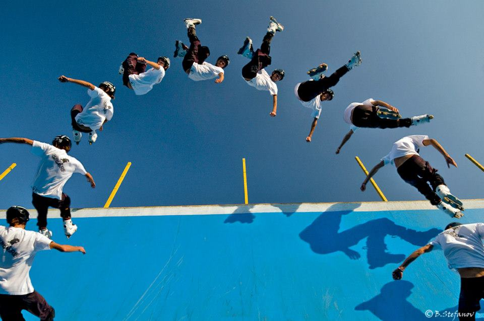 Nikolaj Naidenov vert skating